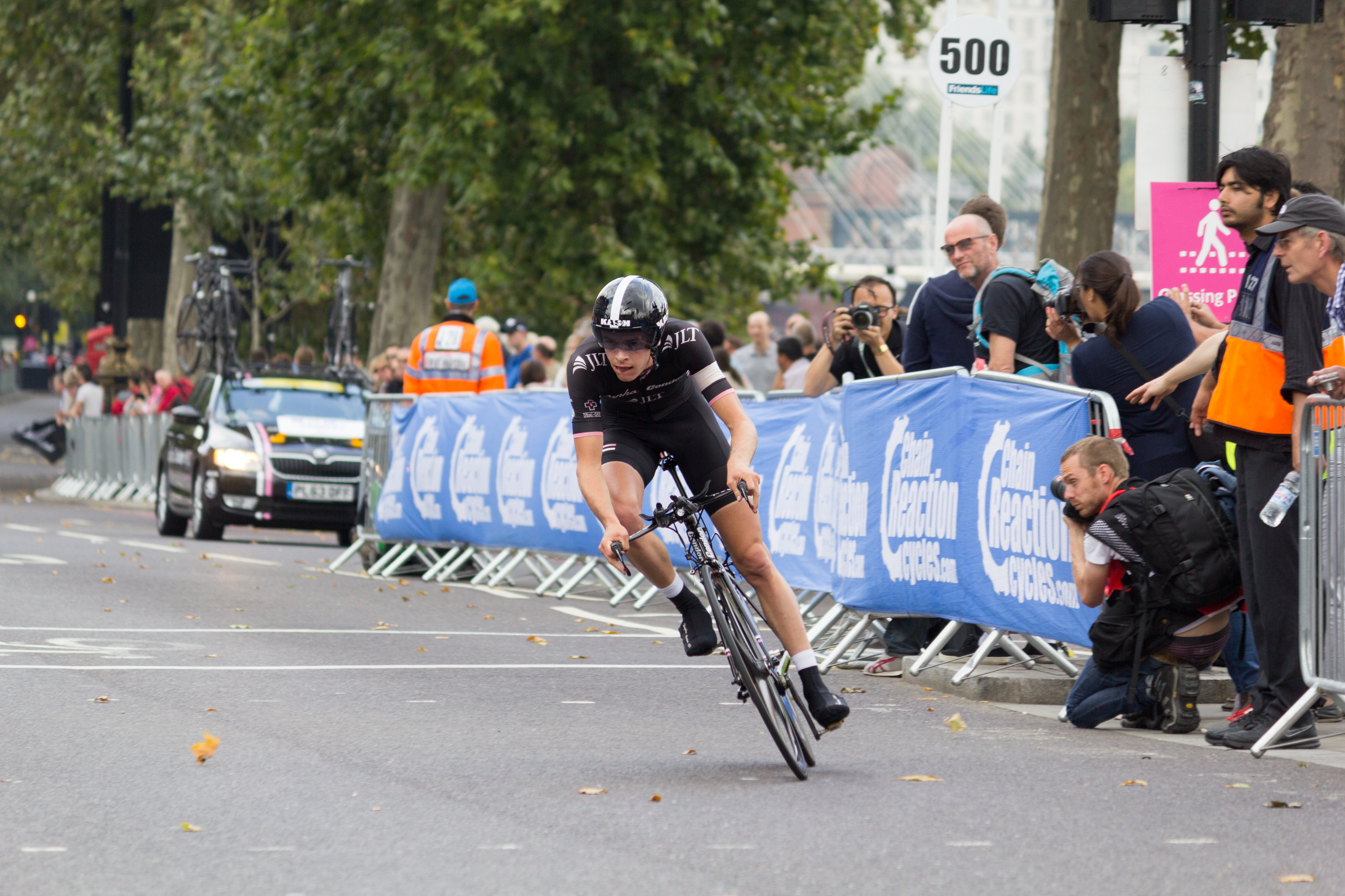 Tour of Britain 2014 stage 8a - London time trial